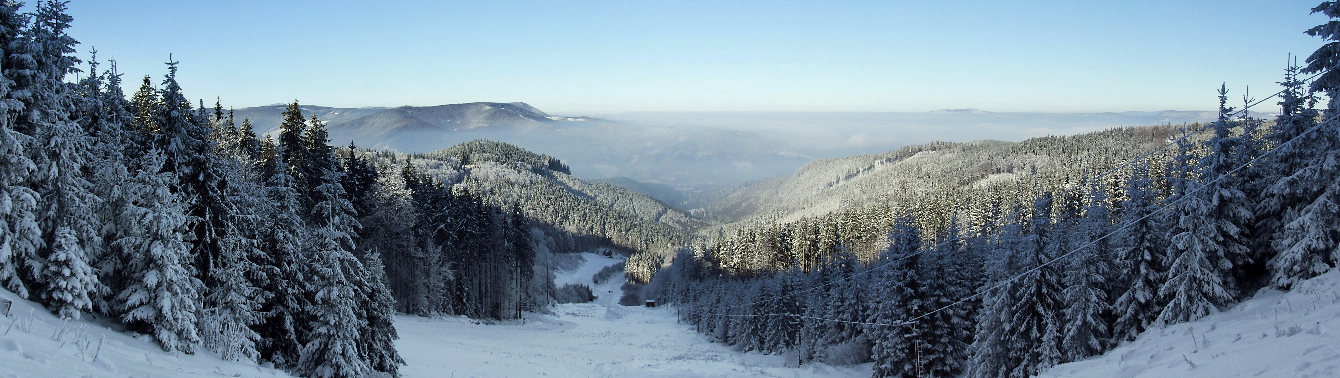 Moravian-Silesian Beskids in Czech Republic in winter